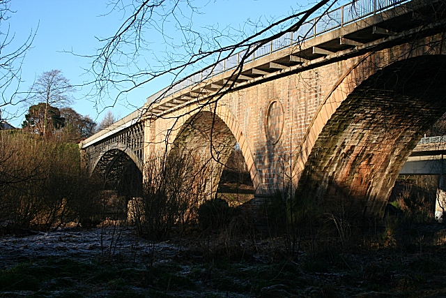 Spey Bridge Low winter sun casts deep shade at the foot of the old Spey Bridge. The nearer part was built in 1804, but the left-hand arch dates from 1852, replacing a temporary wooden structure which replaced the original arch swept away in the Muckle Flood of 1829.